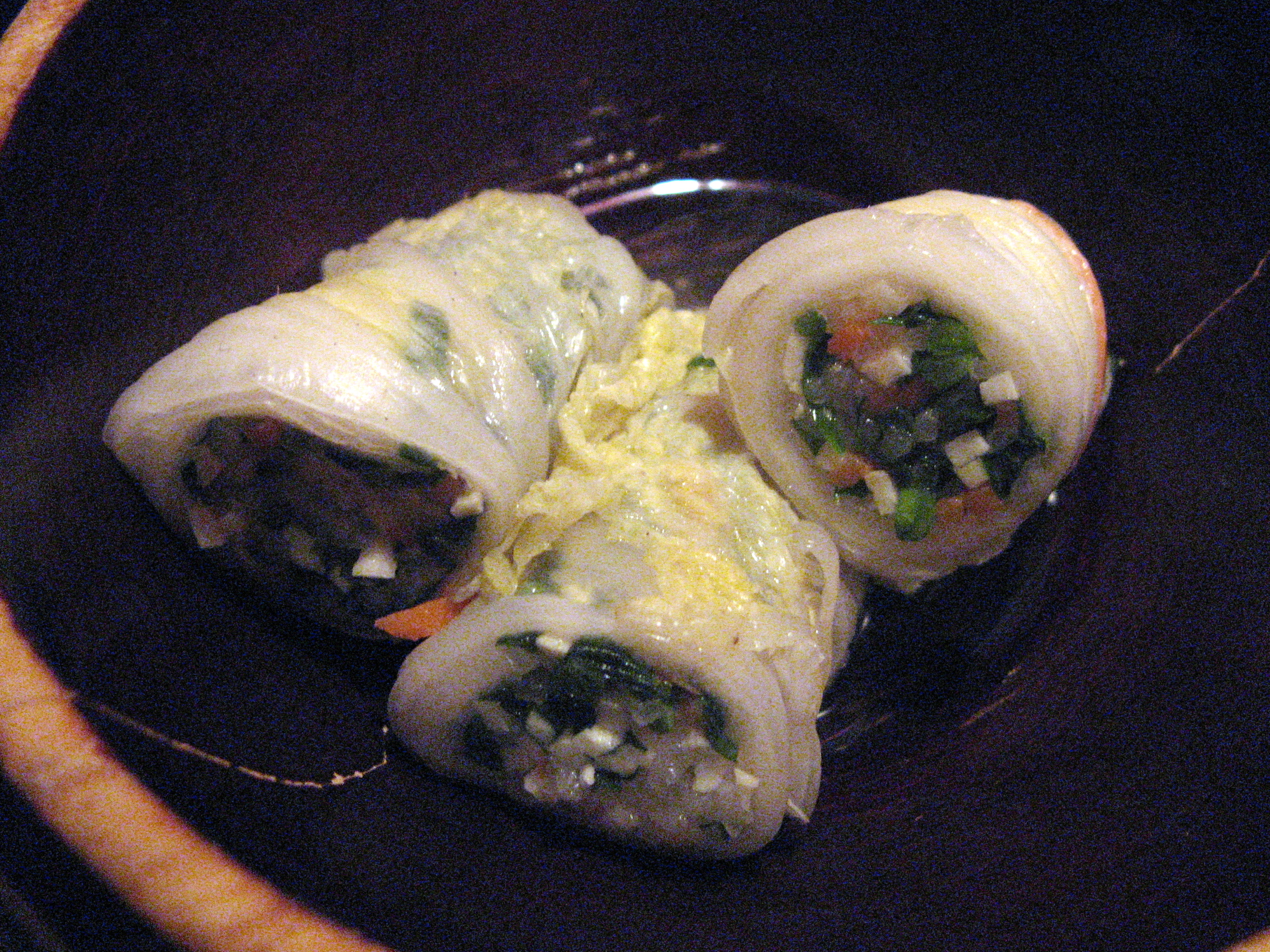 Baechuseonat (steamed and stuffed bachu or napa cabbage roll) at Sanchon (Korean temple restaurant) in Insadong, Seoul, South Korea.